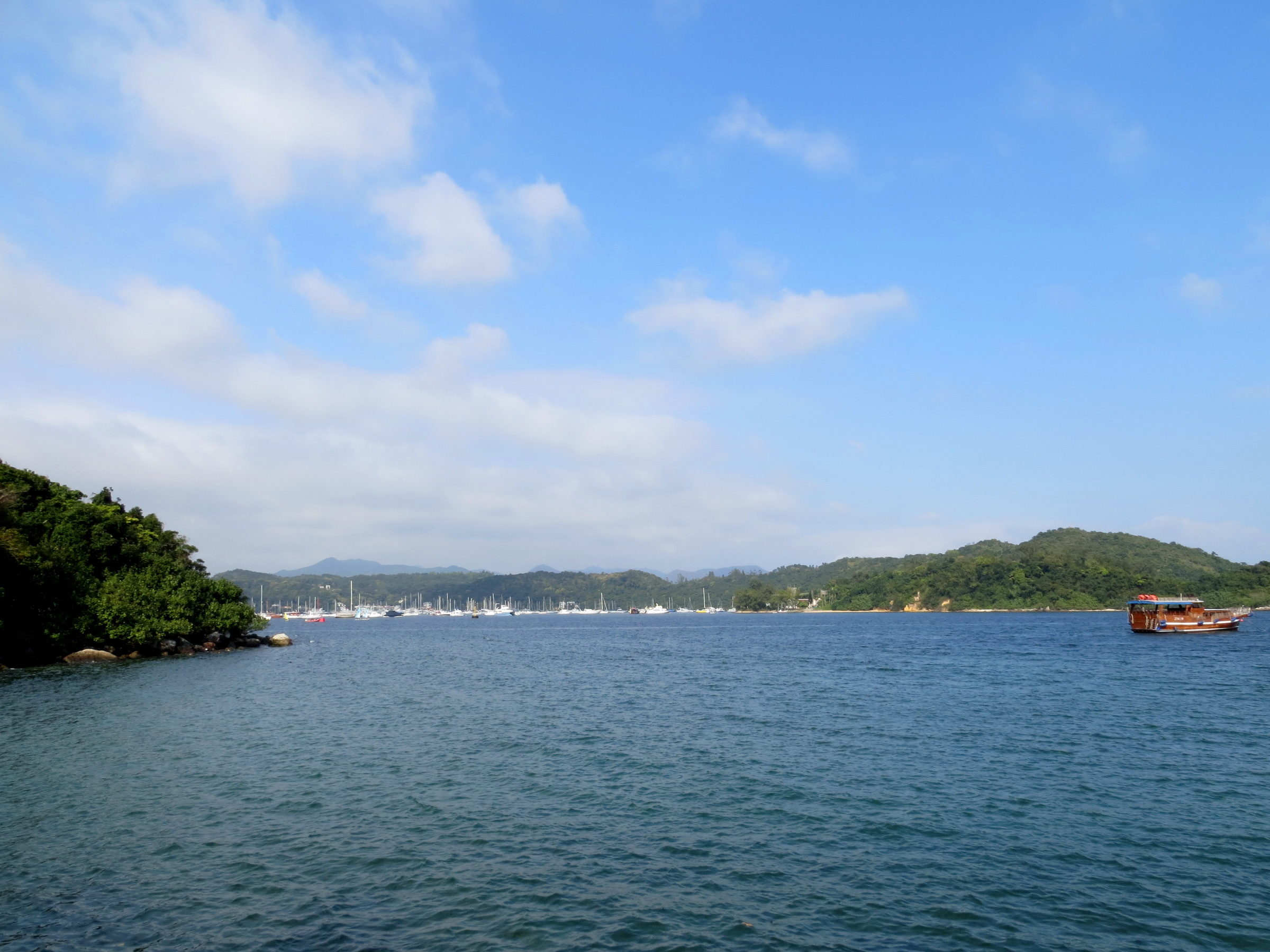 Hebe Haven, also known as Pak Sha Wan, Sai Kung Peninsula, New Territories, Hong Kong.